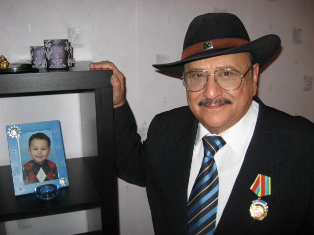 Uzbek director Meliz Abzalov in 2009.